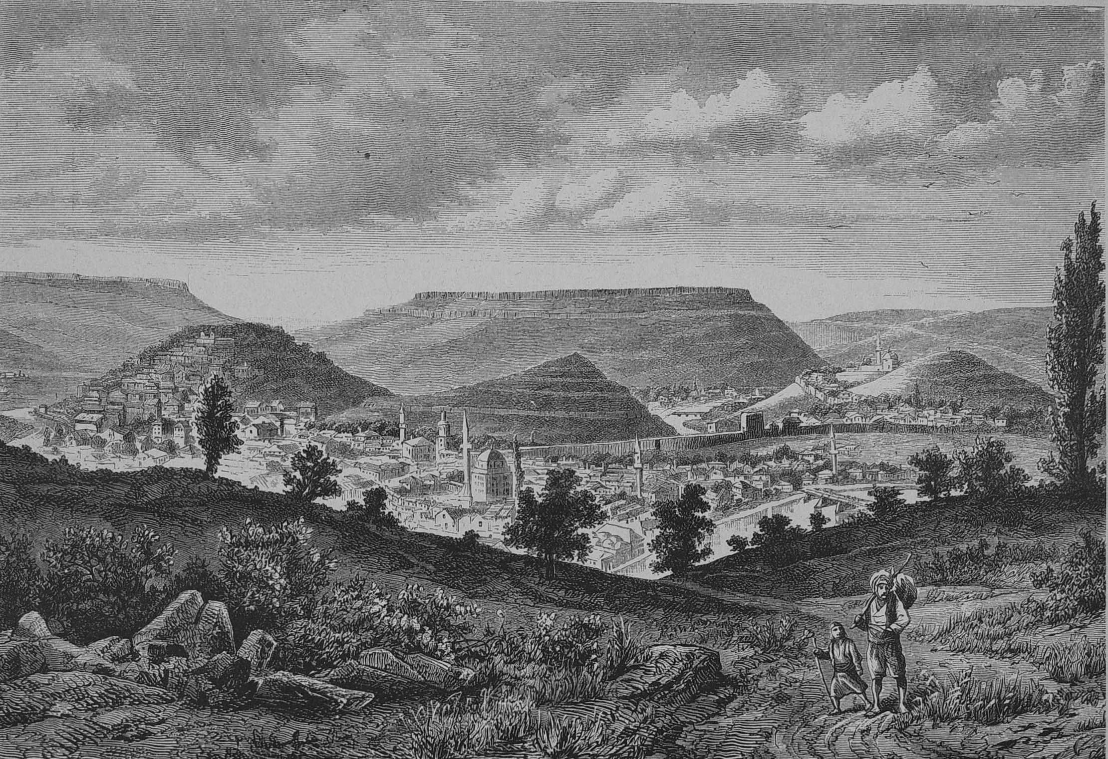 caption: "Ansicht von Tirnowo."